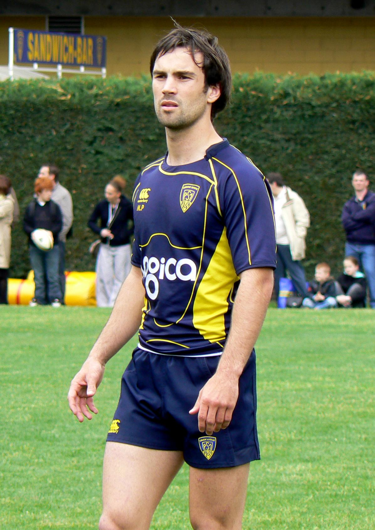 The french rugbyman Morgan Parra with ASM Clermont Auvergne